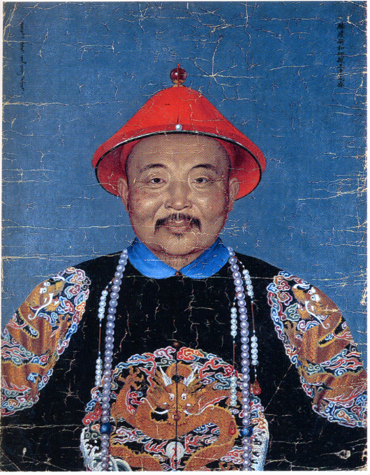 Dawachi in Chinese full dress, the last leader of the Dzungar tribe (1752-1759); Chinese Prince of Choros.